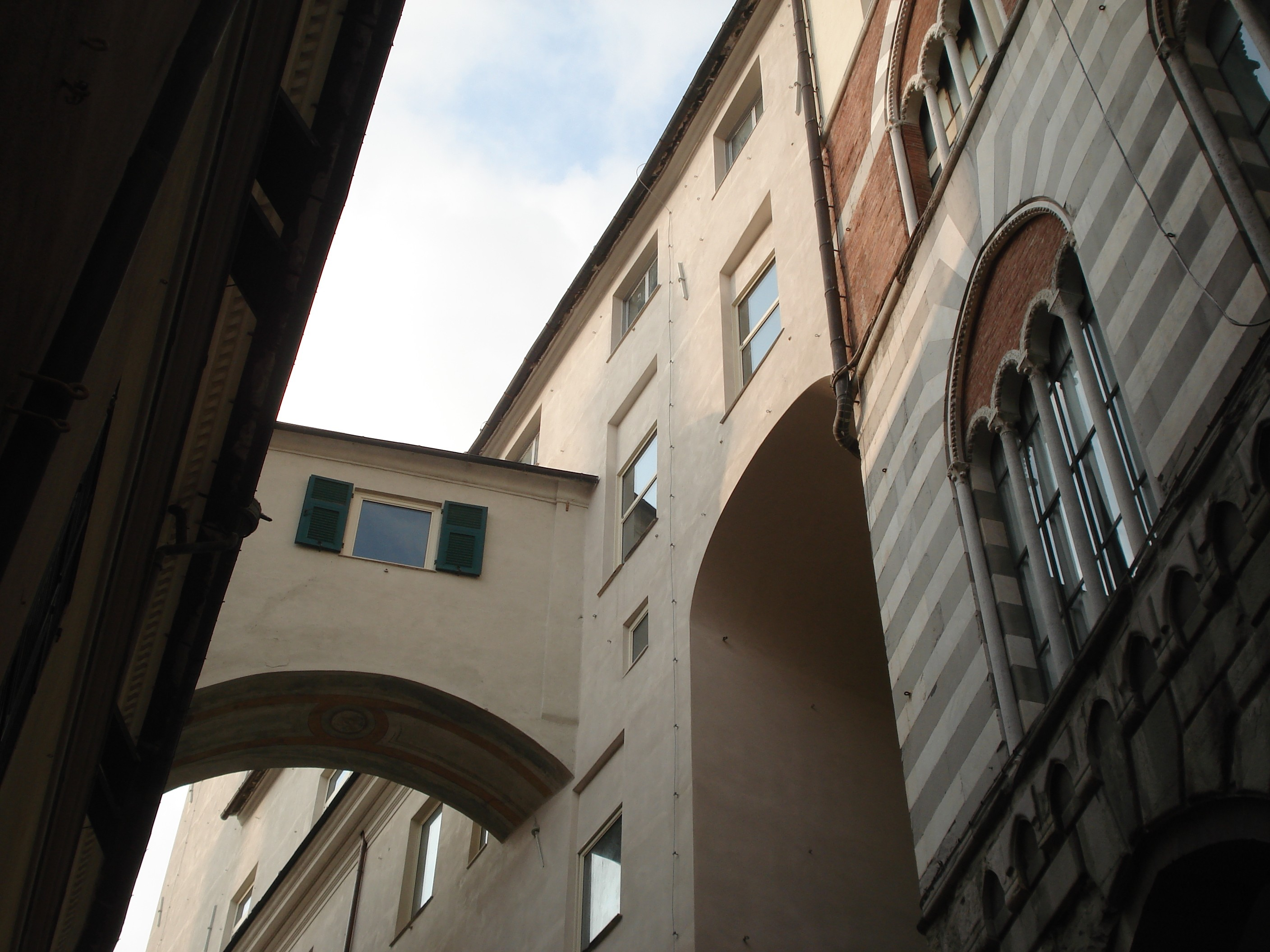 Aereal bridges in Doge's Palace in Genoa